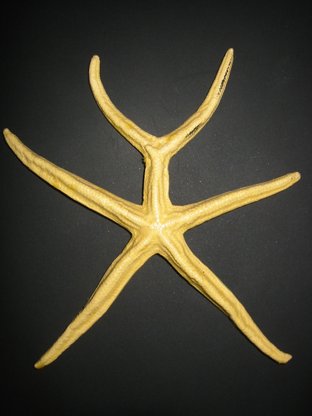 Mexican Starfish Mutation - DevilStar Variety